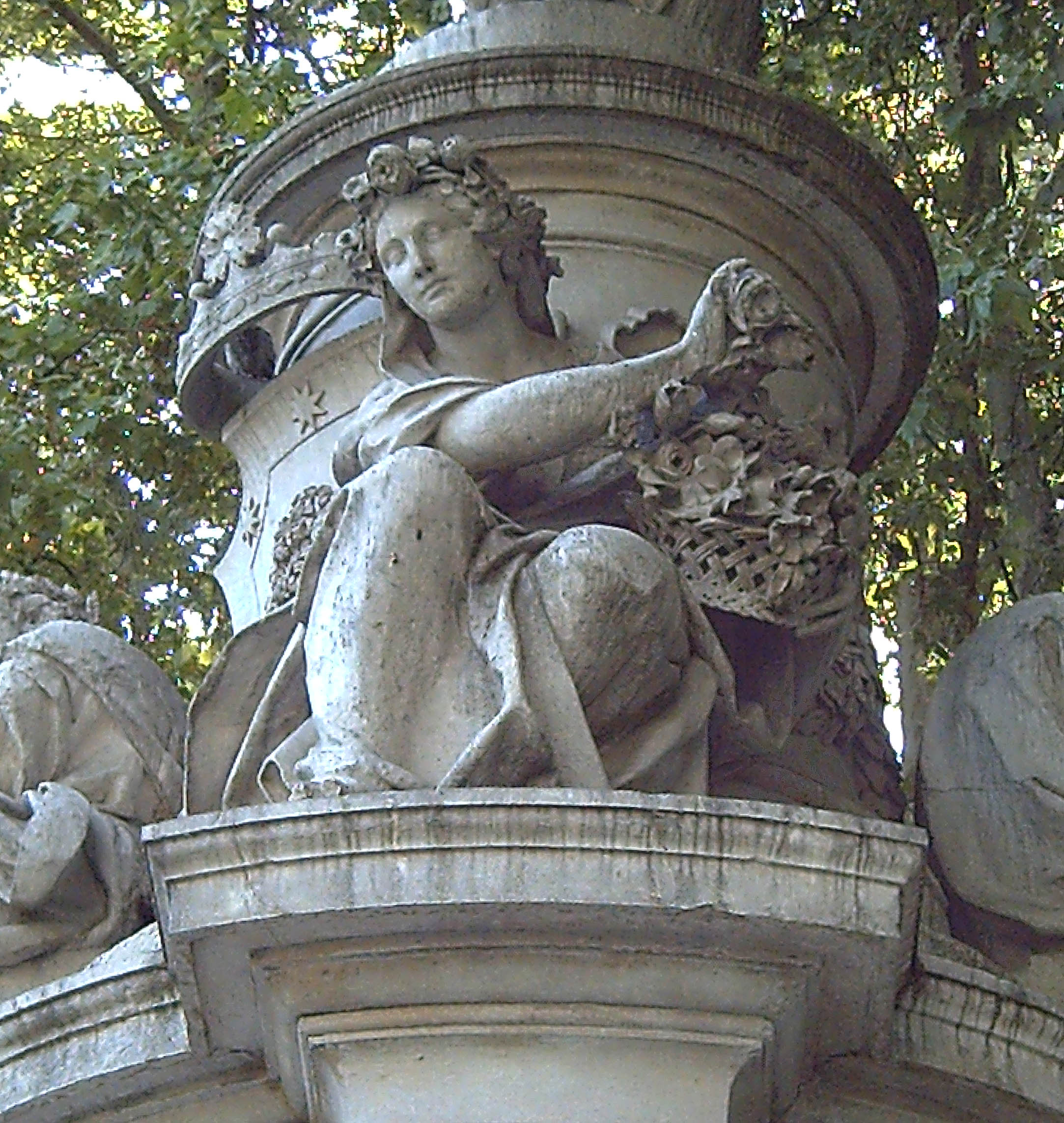 Allegory of Spring. Detail of the Fountain of Apollo in Madrid (Spain).